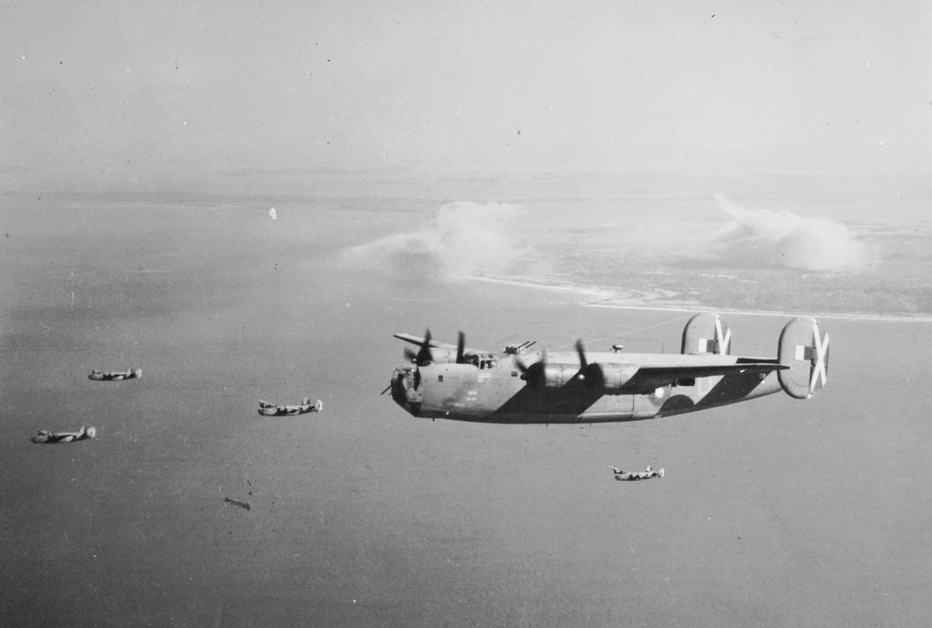 Royal Air Force Consolidated Liberator B Mark VIs of No. 356 Squadron RAF heading for their base at Salbani, India, after bombing Japanese positions on Ramree Island (in background) prior to its occupation by the Allies on 21 January 1945.